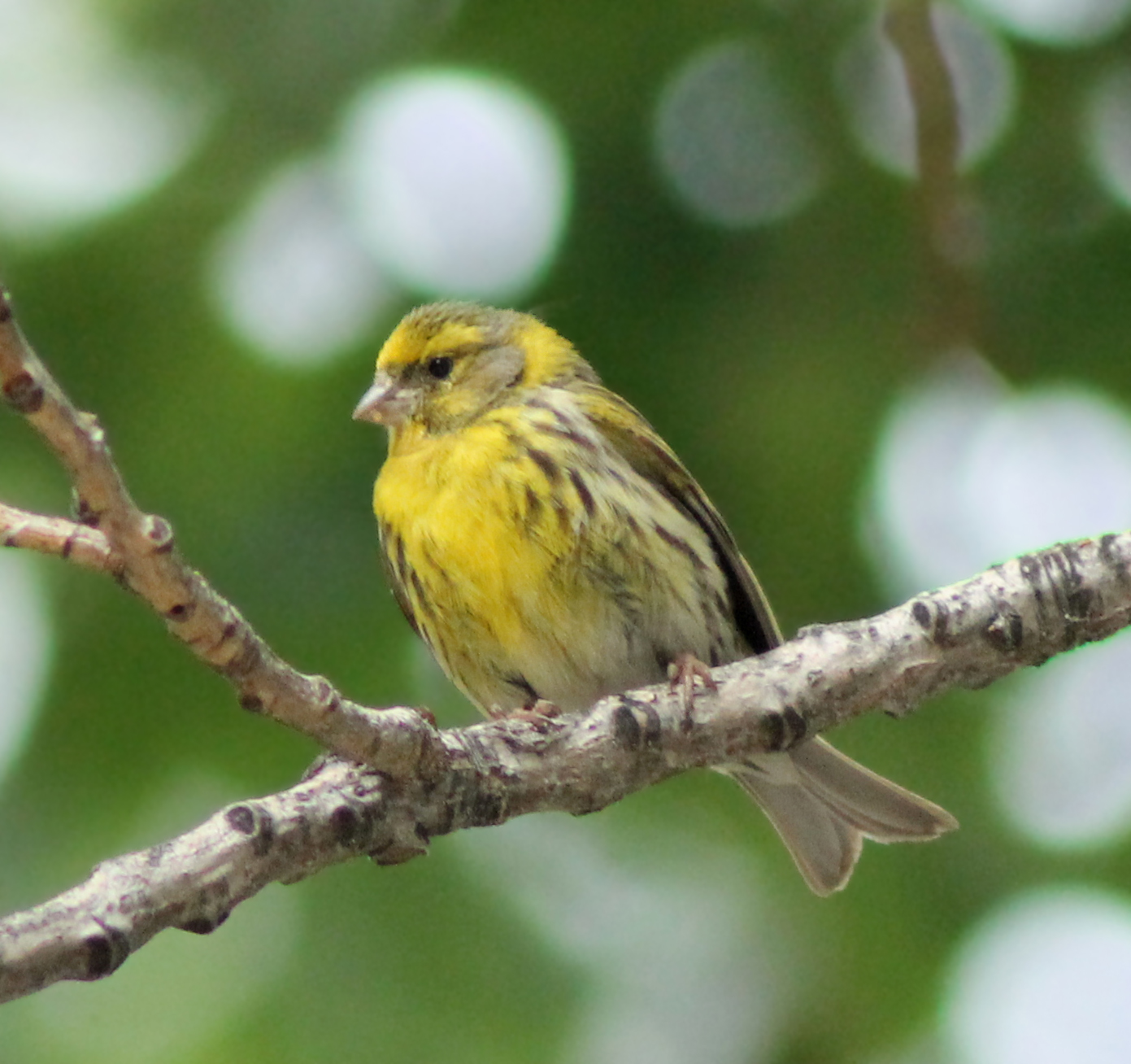 A male European Serin (Serinus serinus) in Madrid (Spain).